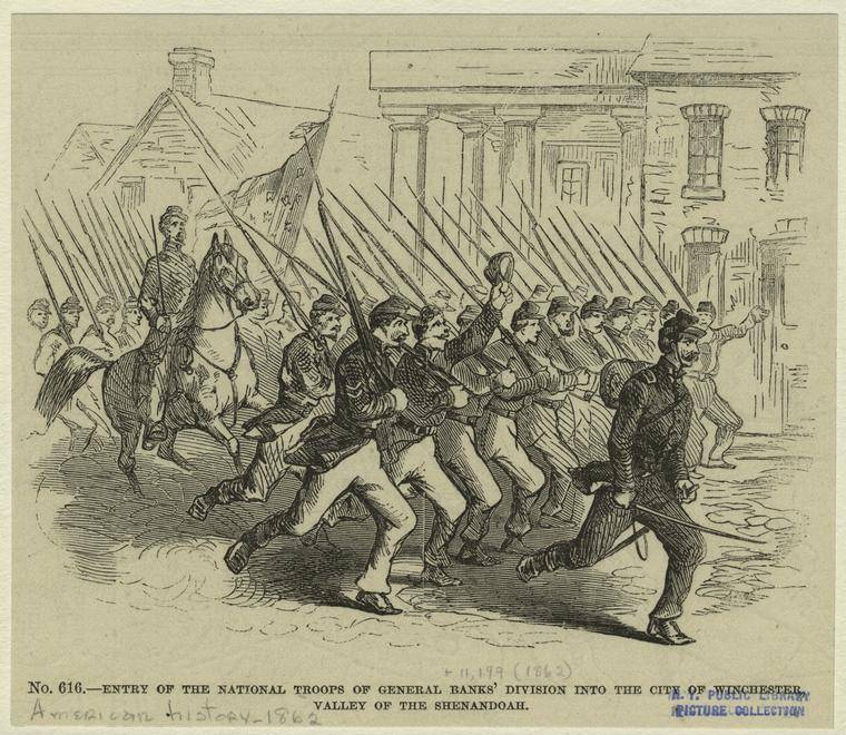 Publisher: Frank Leslie's pictorial history of the American Civil War New York, 1862 New York Public Library